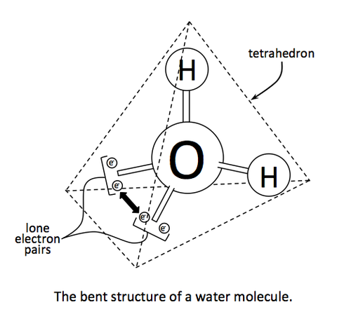 Water (H2O) is actually a bent molecule. Oxygen has two lone pairs of electrons that do not bond with another atom. Since water is a tetrahedral molecule, the lone pairs must be adjacent to each other. When this happens, the lone pairs exert a repulsive force on each other effectively bending the entire molecule. This bent nature generates polarity in the water molecule